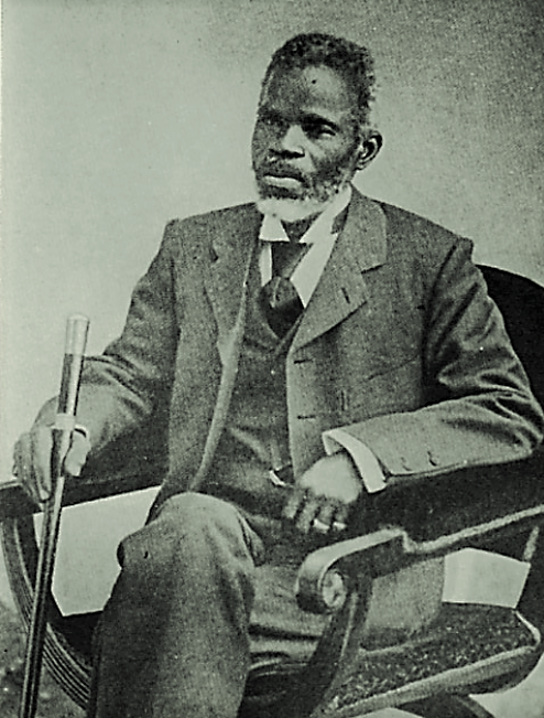 A 19th century photo of Jacob Wilson Sey, the first Gold Coast millionaire and political architect of the Aborigines Rights Protection Society. The identity of the photographer is unknown.